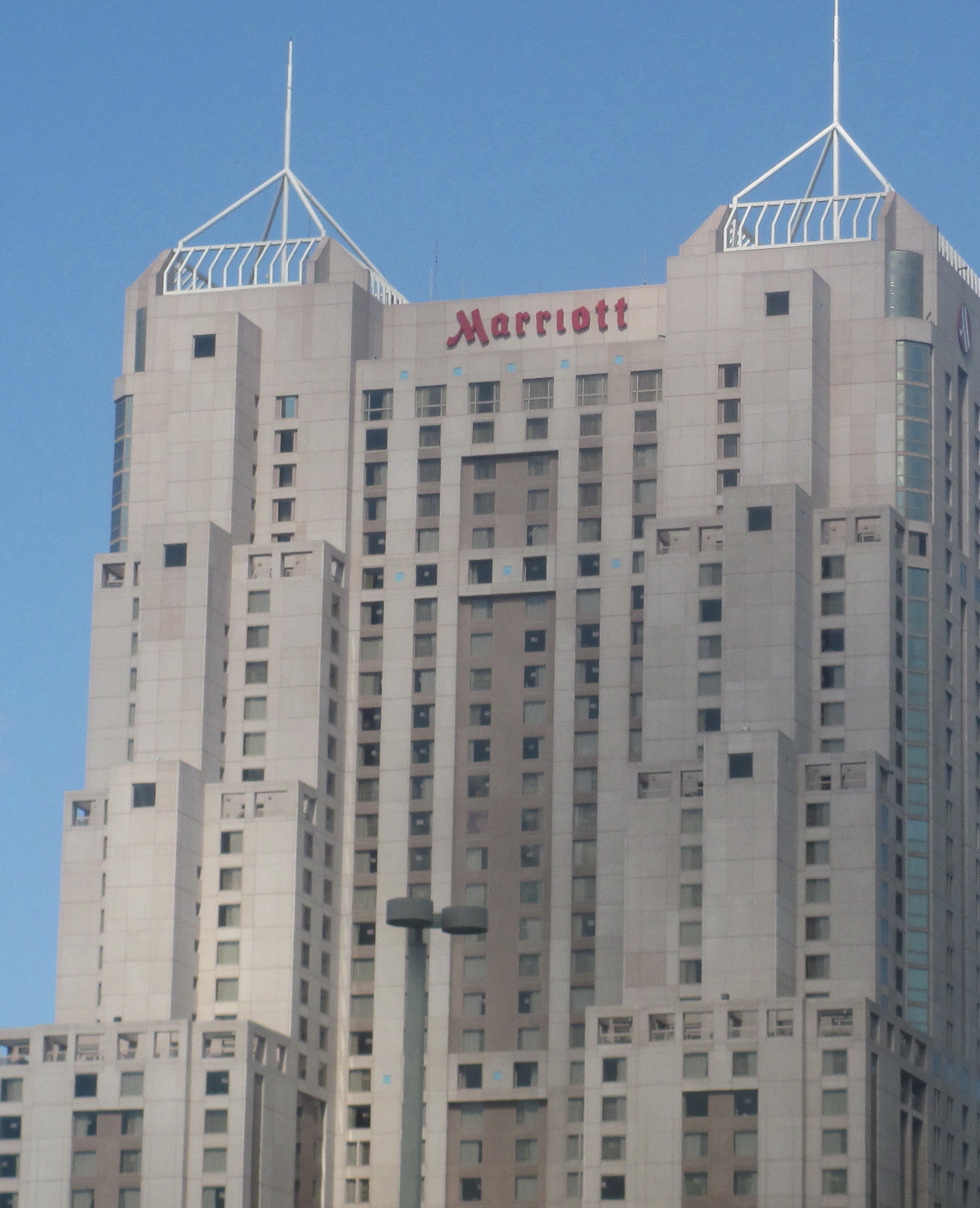 I took photo with Canon camera of Marriott Hotel in San Antonio, TX.